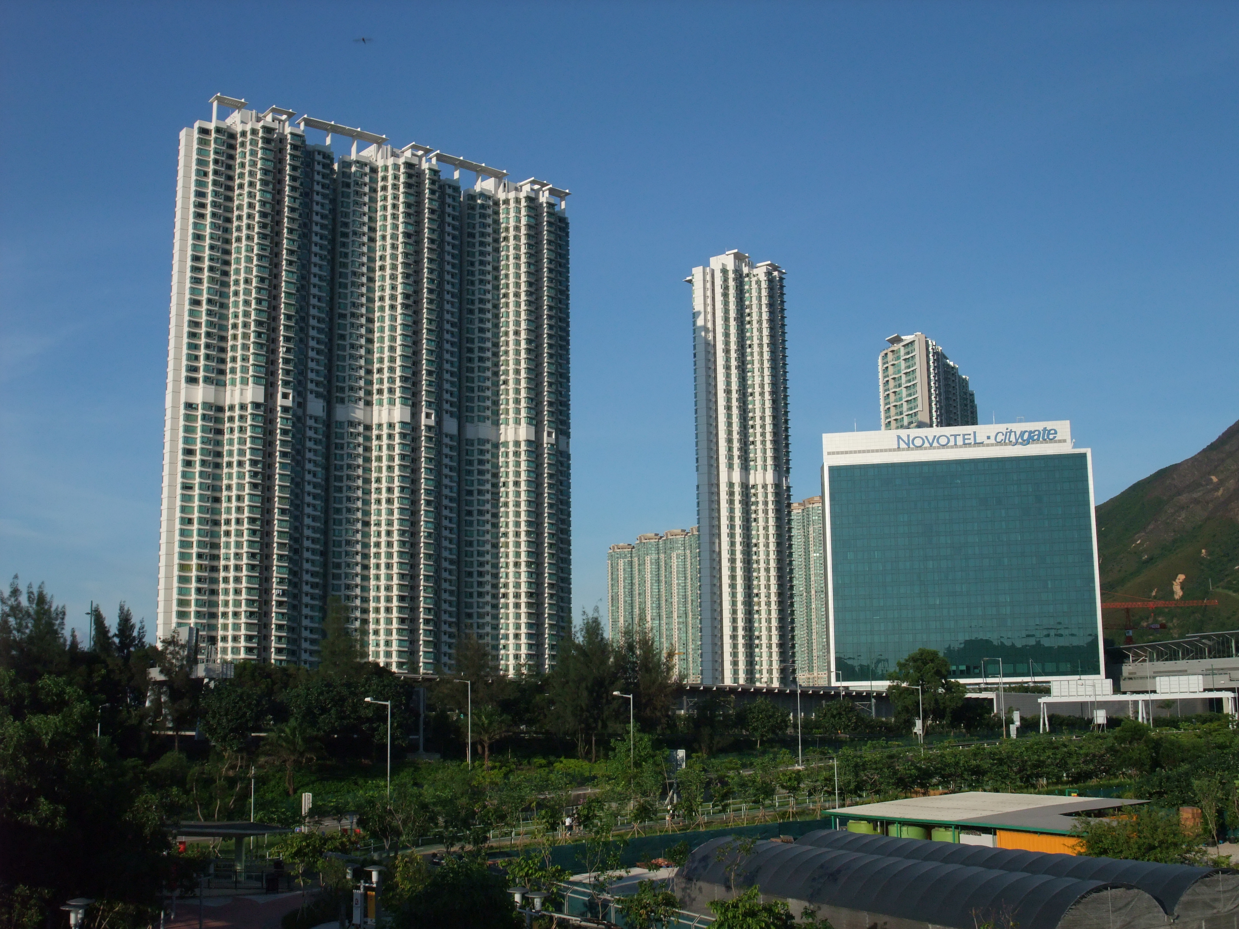 Photo of Seaview Crescent and Novotel Citygate Hong Kong